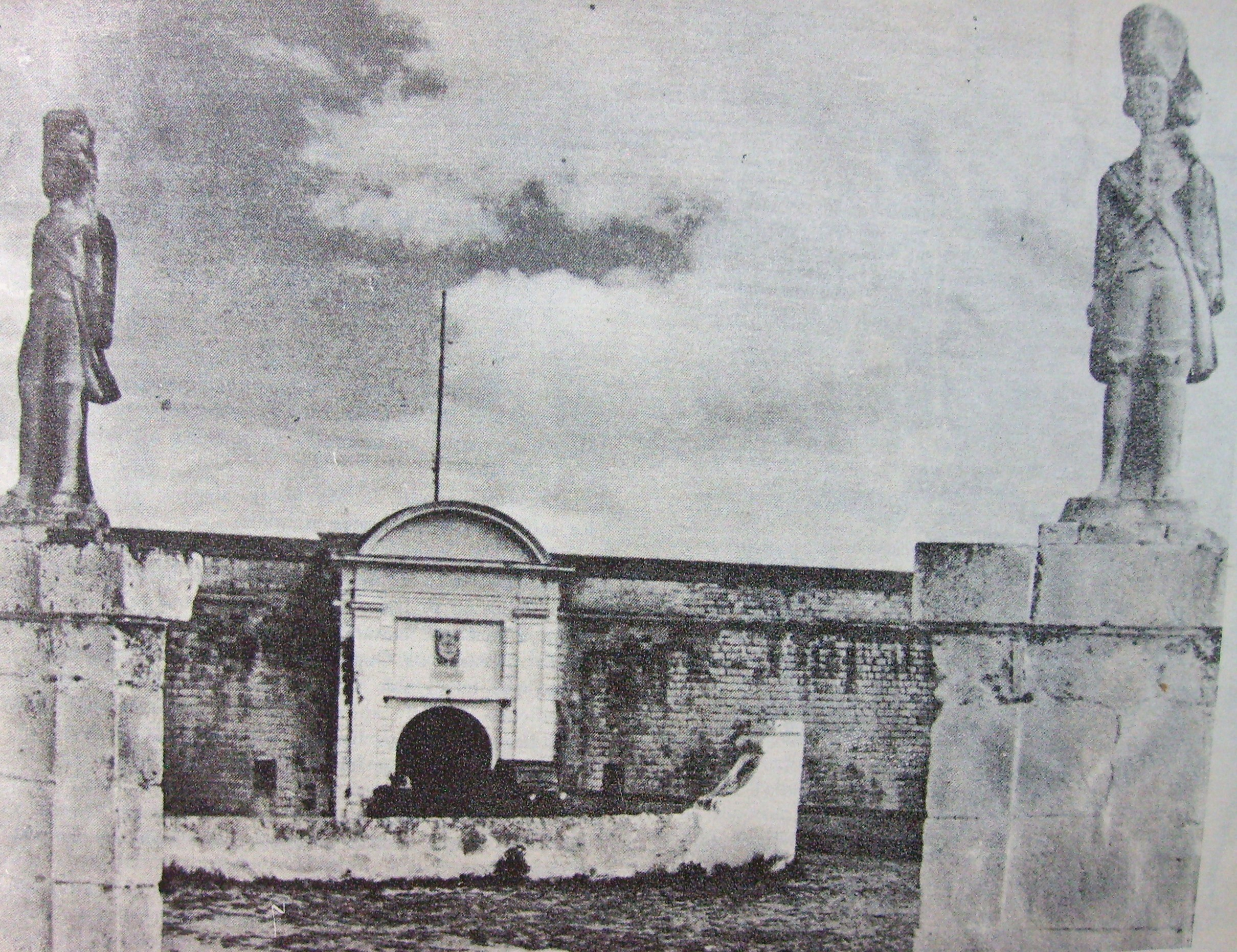 Fortaleza de San Carlos de Perote y las estatuas de los centinelas Francisco Ferrer y Jaime Castells